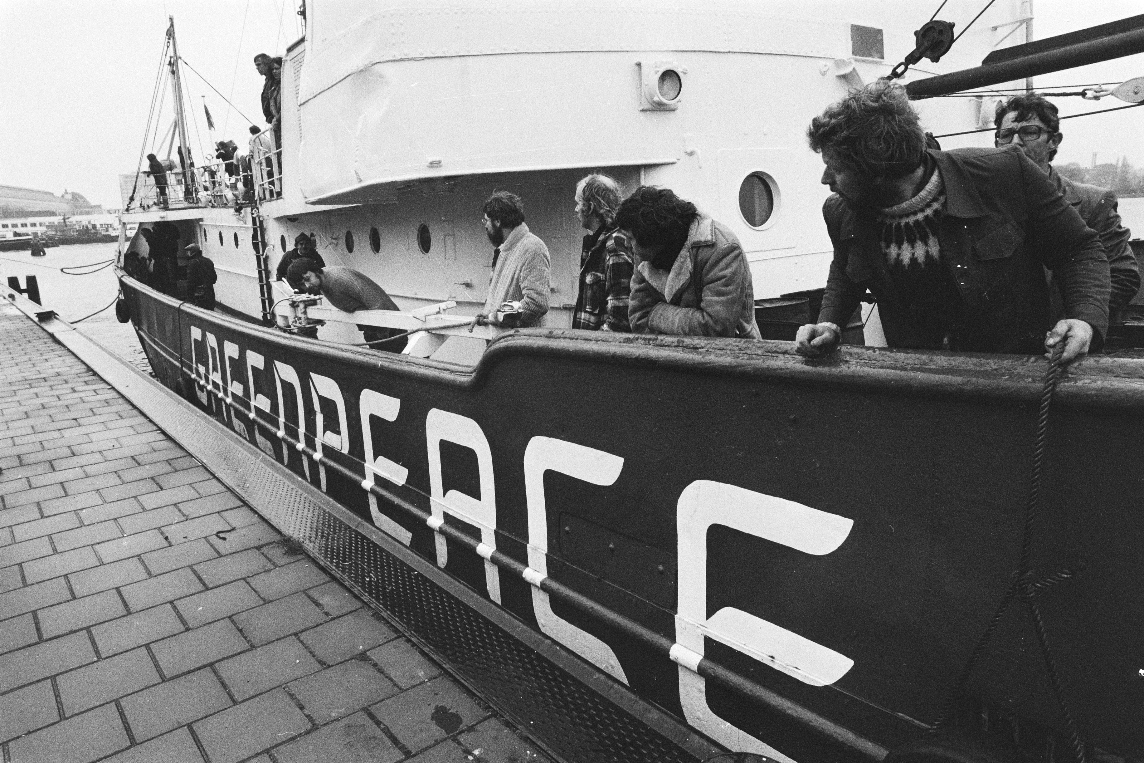 Greenpeace ship Rainbow Warrior arrived at De Ruyterkader Amsterdam after escape from Spanish waters (Date: 15 November 1980)